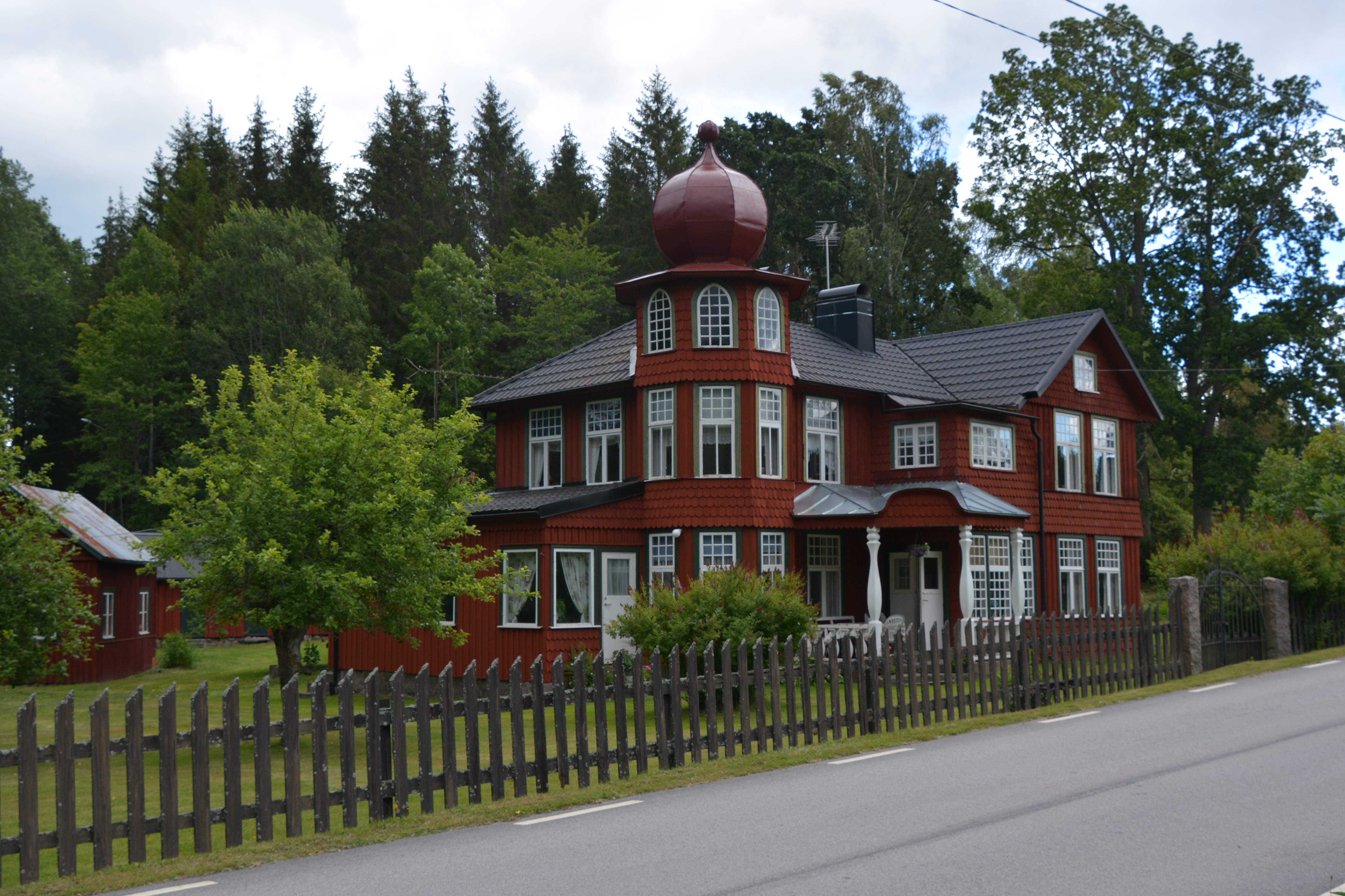 Theodor Karlssons hus i Björneström